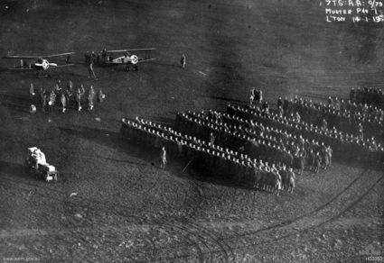 Australian War Memorial image H02050. Members of the 1st Wing Australian Flying wing mustered at Leighterton, England to receive Australian Comforts Fund gifts.